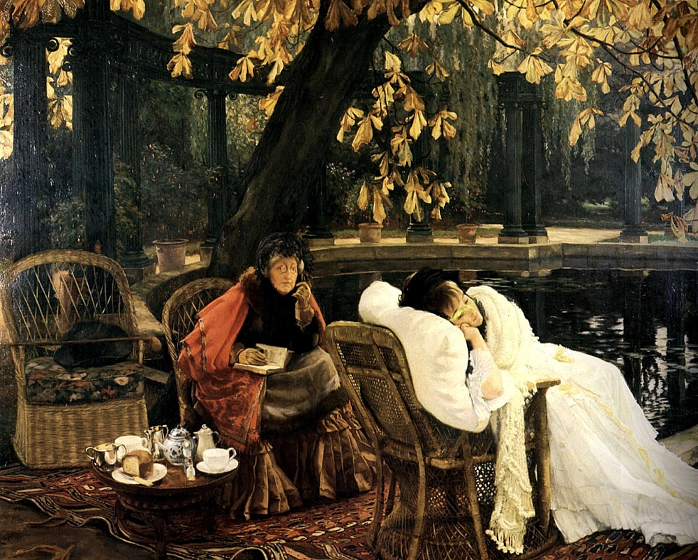 A convalescent